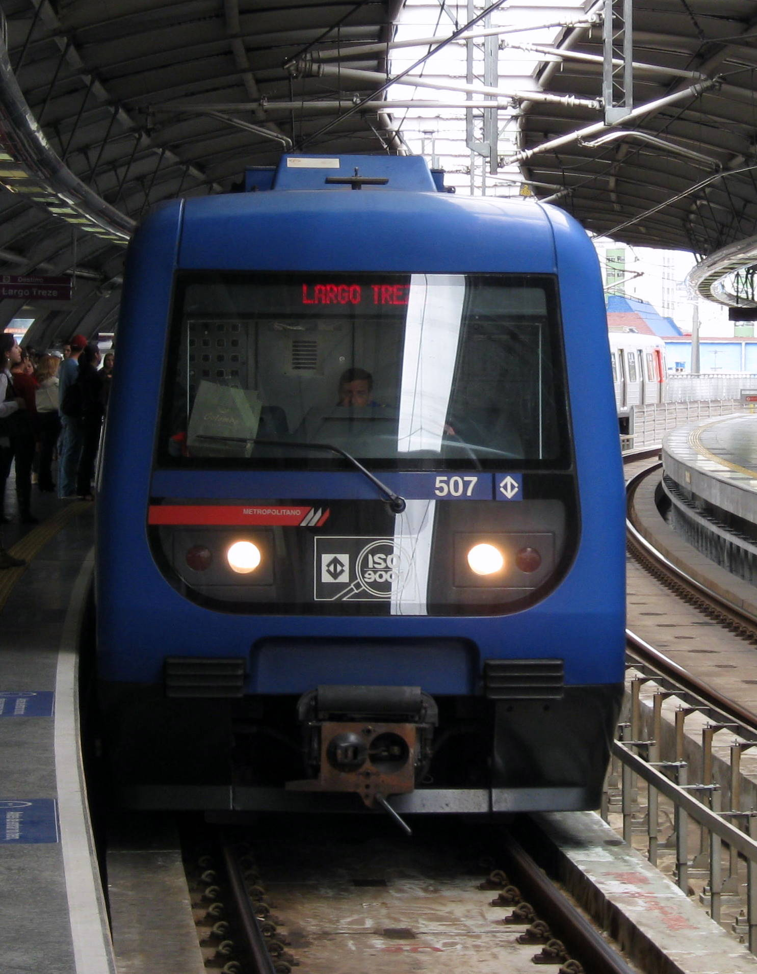 5 Purple Line Train Station aligning Campo Limpo